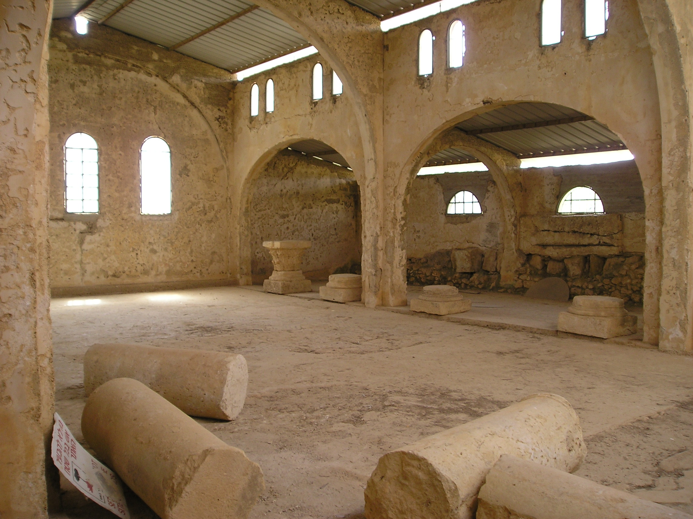 Tel Shilo (Khirbet Seilun)